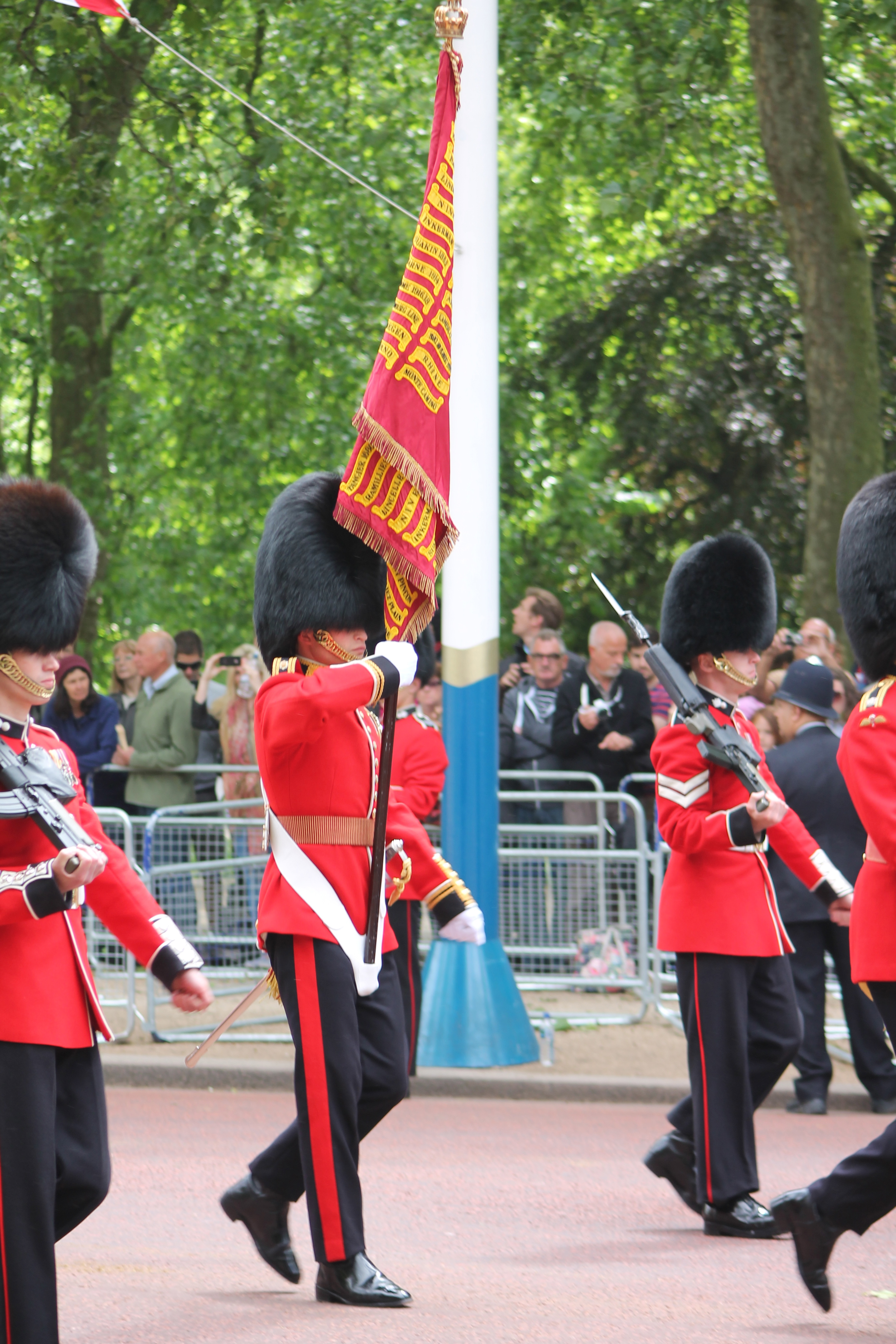 Trooping the Colour, June 2013 - the Colours on the Mall